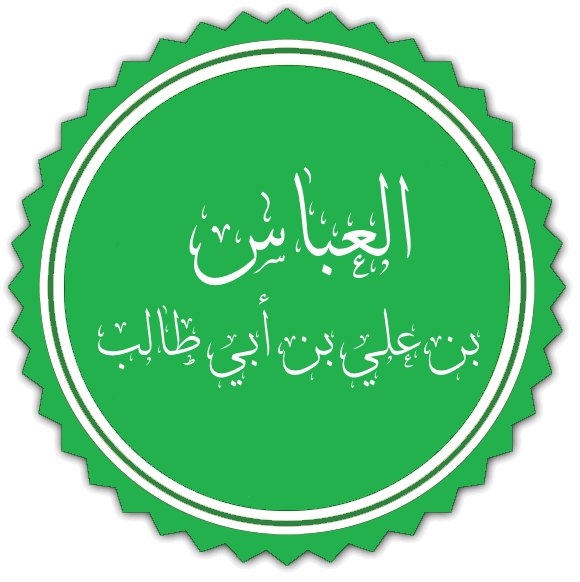 Al-Abbas ibn Ali